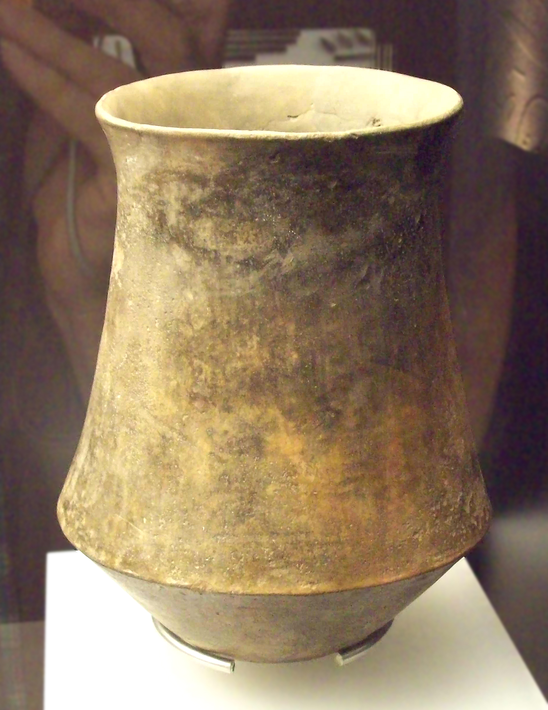 A carinated vessel from the Argaric culture (Middle Bronze Age).